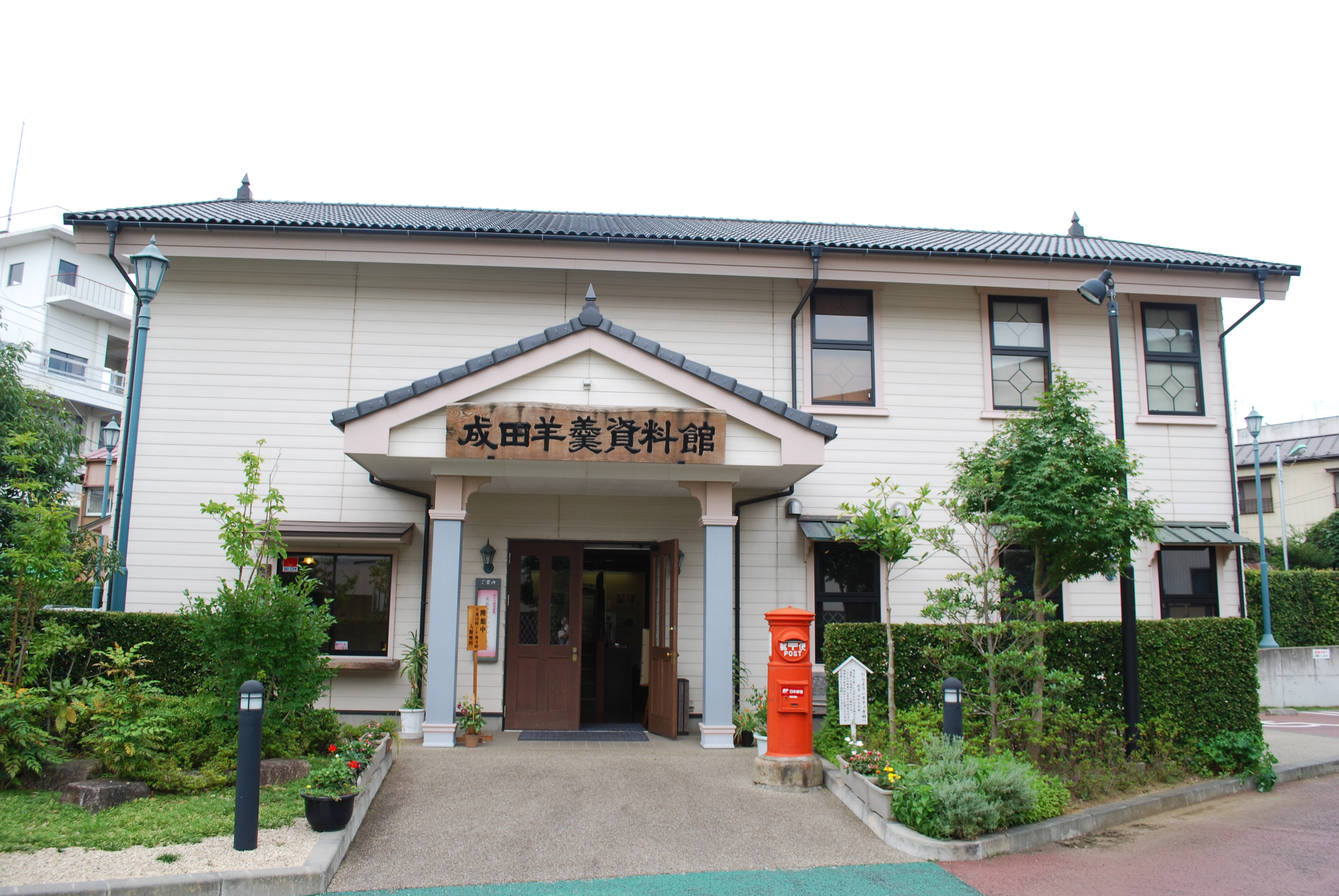 Narita-sweetened and jellied bean paste-museum,Narita-city,Japan